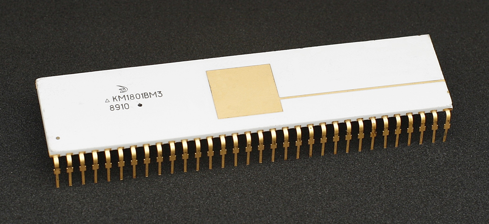 USSR CPU KM1801VM3